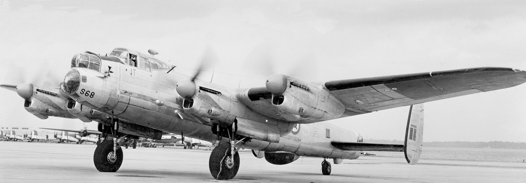 An Avro Lancaster Mk. 10MP of No. 405 Squadron, Royal Canadian Air Force, at the Naval Air Station Jacksonville, Florida (USA), in February 1953. The aircraft shown is serial no. KB 868. The aircraft was built by Victory Aircraft in Malton, Ontario (Canada). It was flown to England in Jan 1945 and issued to No. 431 Squadron, RCAF, in Mar 1945. It returned to Canada on 5 Jun 1945 with No 431 Sqn as code 'SE-E' for use with the "Tiger Force", No 662(HB) Wing, Dartmouth, Nova Scotia. It was later converted to a Mk. 10MP maritime patrol aircraft and issued to No. 405(MP) Sqn in 1952 with code 'VC-AGS'. It was retired in 23 Jun 1955. 405 Sqn had been reactivated on 31 Mar 1950 as No. 405 Eagle Squadron, as a maritime patrol squadron based at Greenwood, Nova Scotia (Canada).